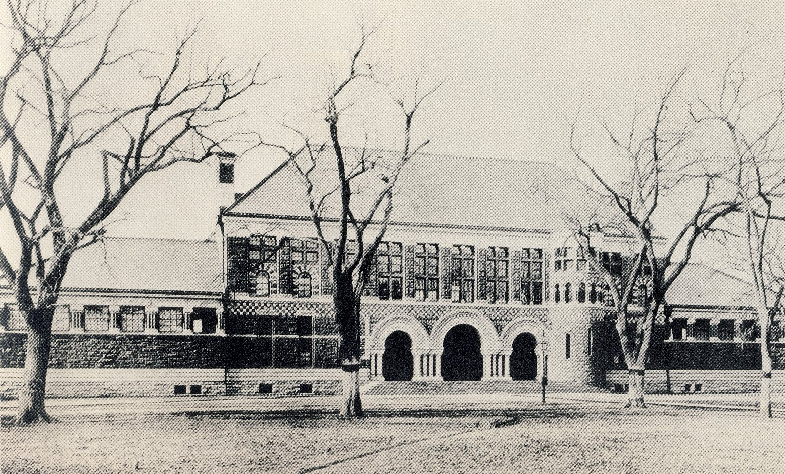 Austin Hall was the main building of the Harvard Law School.